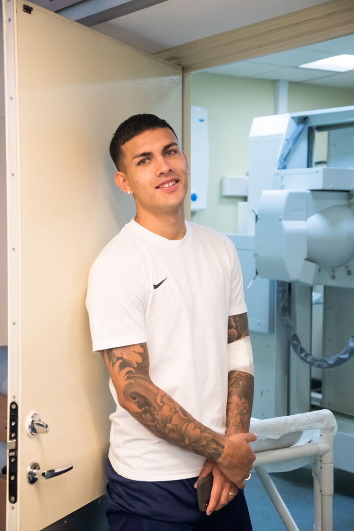 Leandro Paredes, 2019